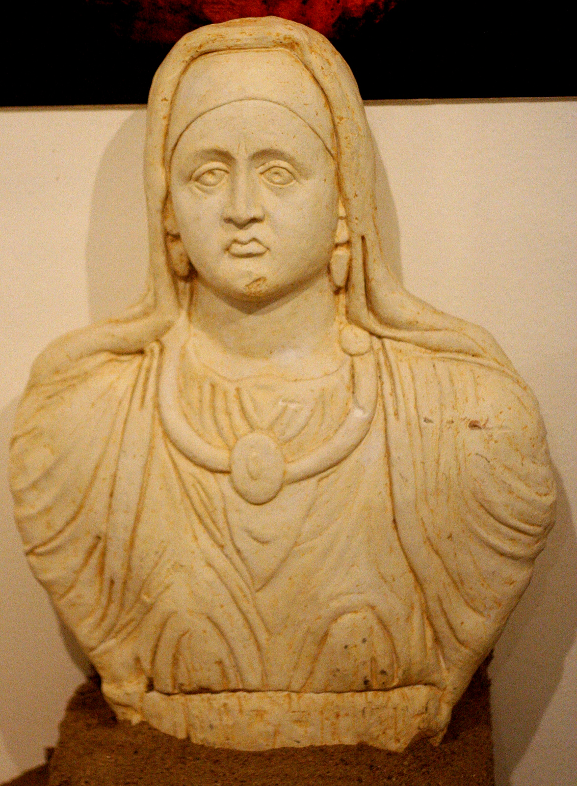 Arkeologji - Periudha Romake - Kllokot